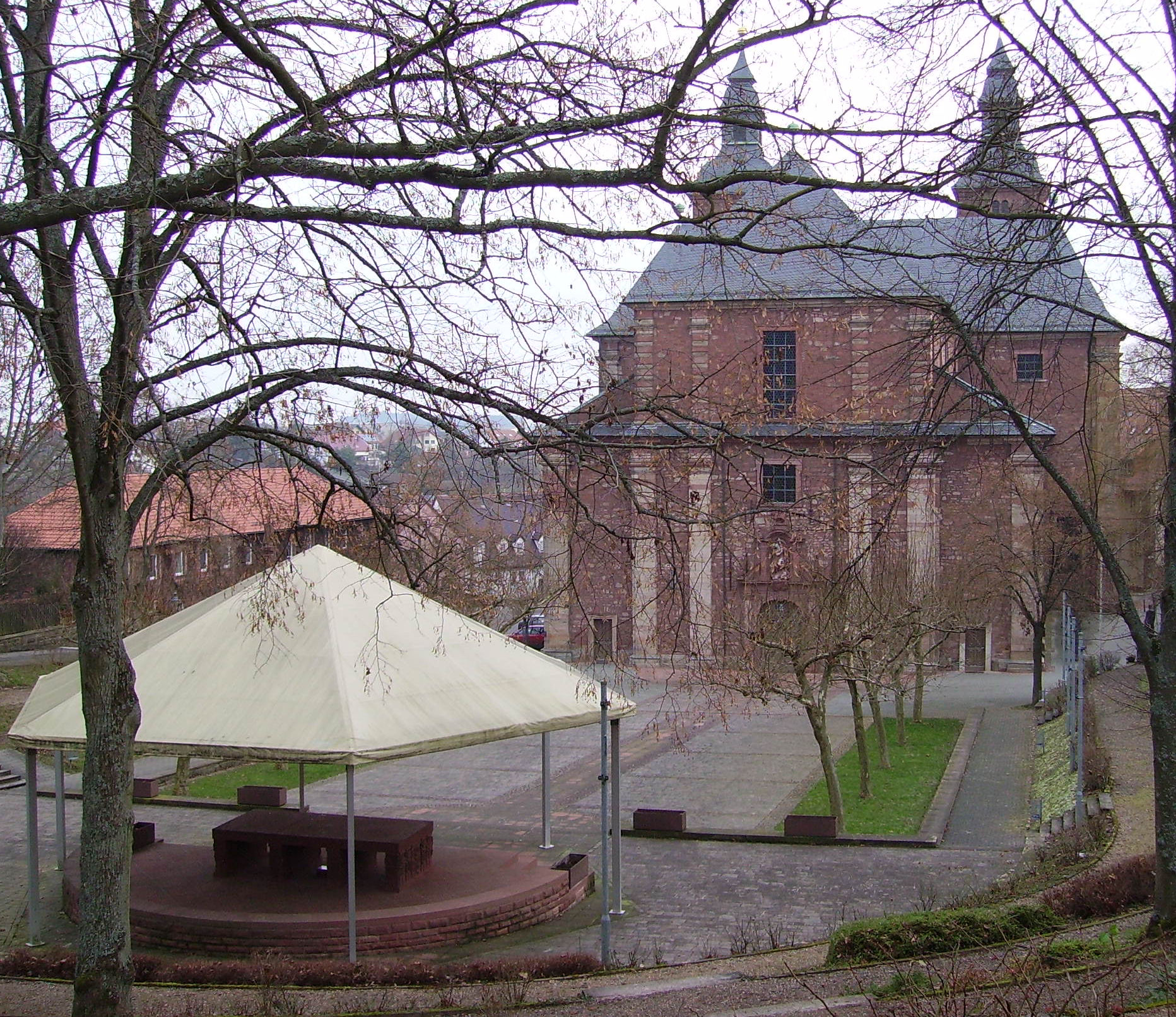 basilica of Walldürn, Germany